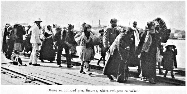 Smyrna massacre, 1922. Railroad pier in Smyrna, where refugees embarked.